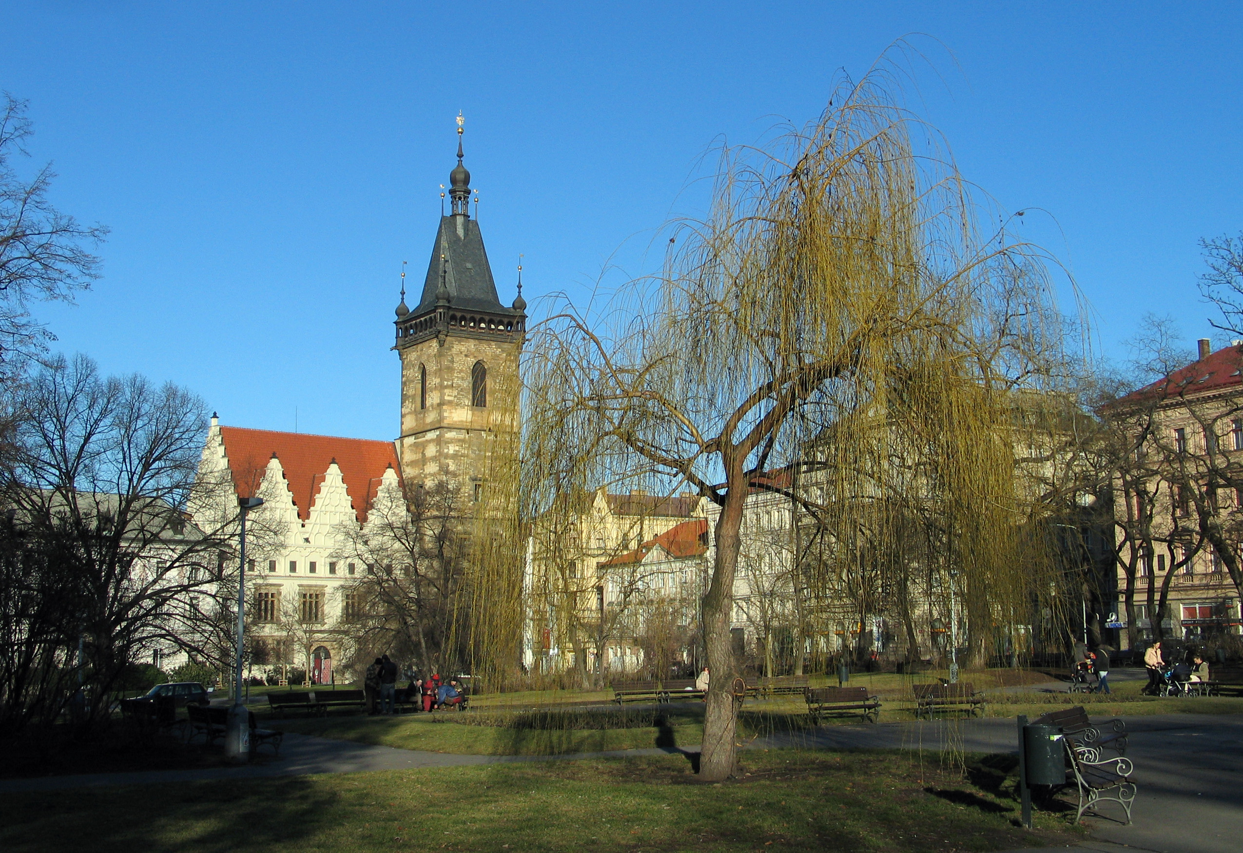 CZ, Praha, Nove Mesto. Karlova Square, Nove Mesto.